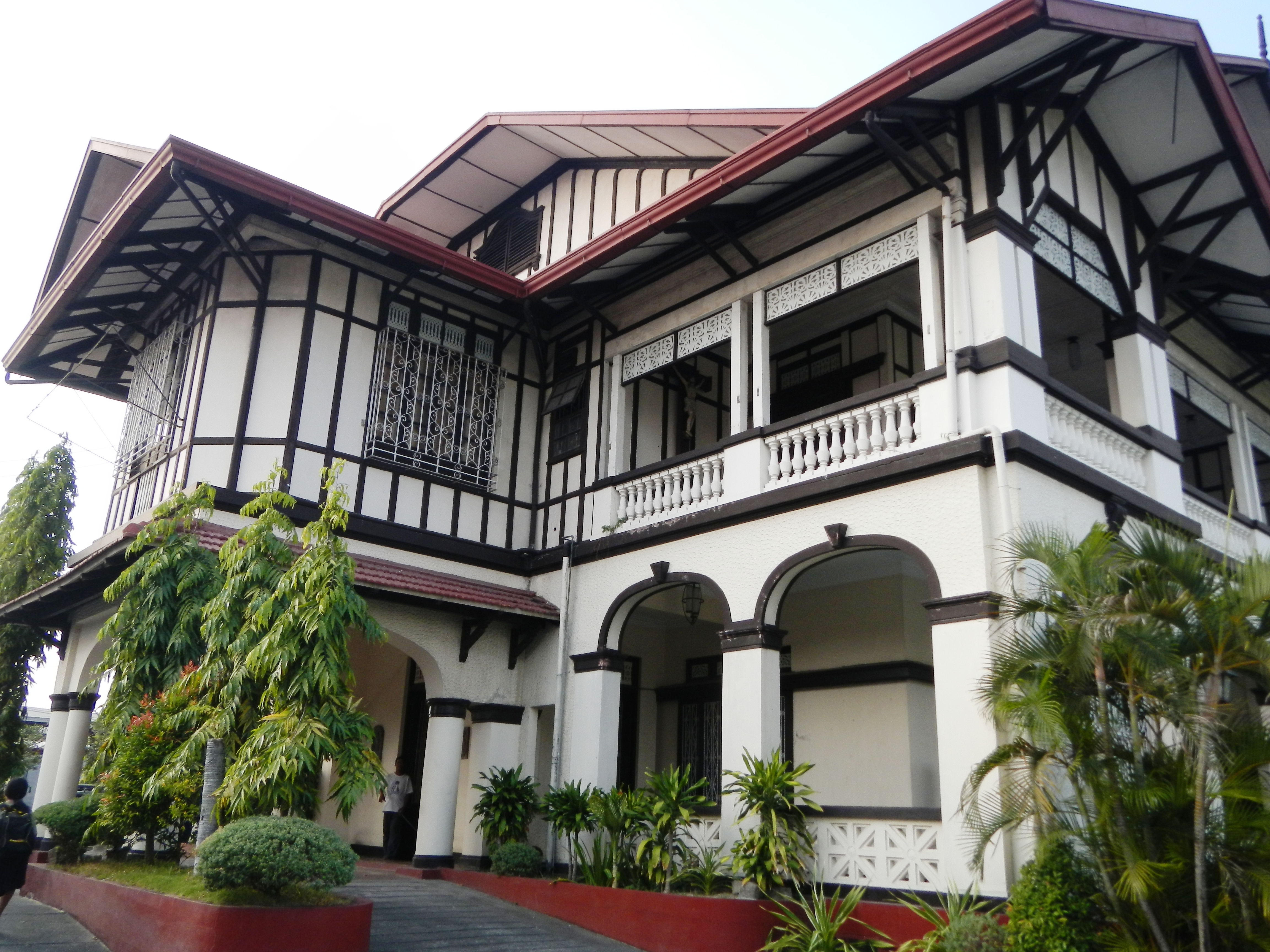 Archdiocesan Chancery [1]Diocesan chancery [2] is a heritage house in the City of San Fernando, Pampanga. It was the former residence of Luis Wenceslao Dison and Felisa Hizon that was purchased by the Roman Catholic Archdiocese of San Fernando[3] Archidioecesis Sancti Ferdinandi San Fernando, Pampanga now being used as the Archdiocesan Chancery - Nuestra Senora de la Virgen de los Remedios under Paciano Aniceto [4] preceded by Oscar Cruz[5] Most Rev. Cesar Maria Guerrero, D.D. - was the founder of "Virgen de los Remedios & Santo Cristo del Perdon" Crusade.